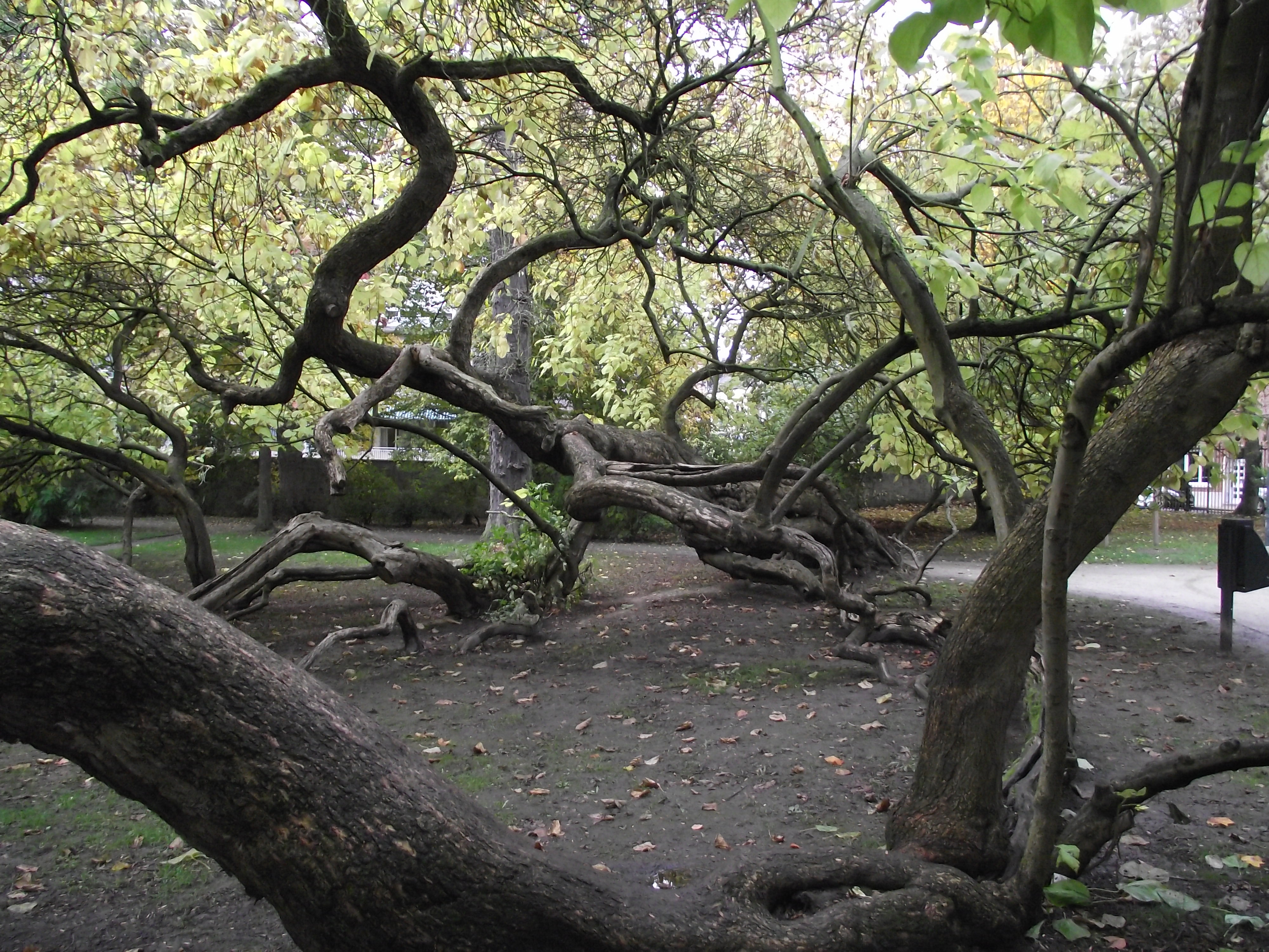 Unusual trees in a park in Tienen. The tree reproduces itself asexualy by starting new trees when a branch touches earth and start a new plant.